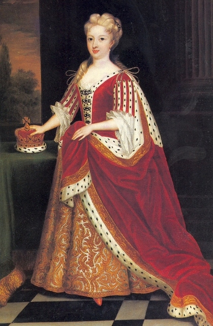 This is a copy of a portrait of Caroline of Ansbach made by Sir Godfrey Kneller in 1716, now at Buckingham Palace. Caroline wear robes of state and rests her hand on her crown as Princess of Wales. She would become Queen in 1727 on the death of her father-in-law, George I